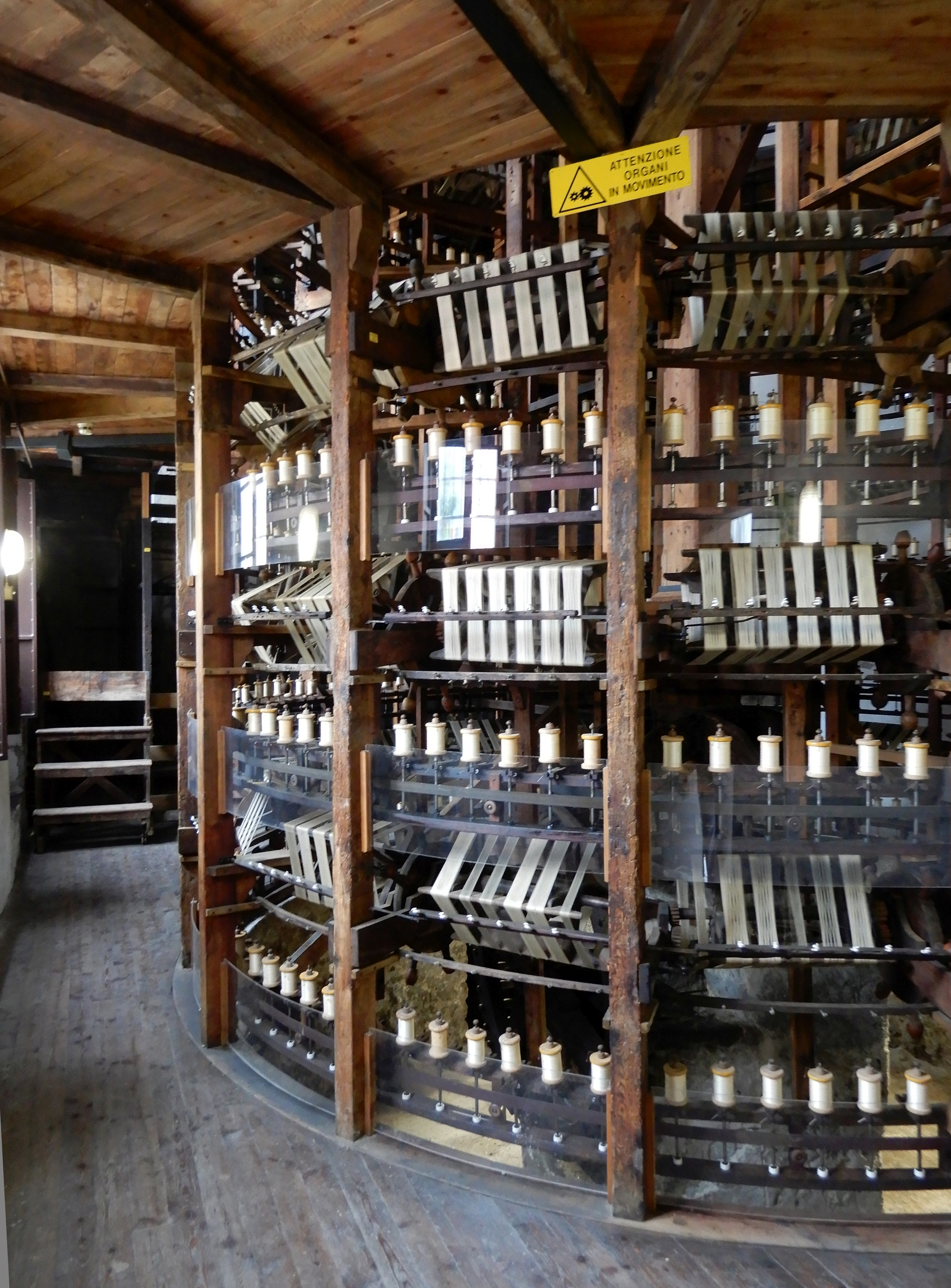 Abbadia Lariana m- Museo settificio Monti - spinning hydraulic machine from 1818